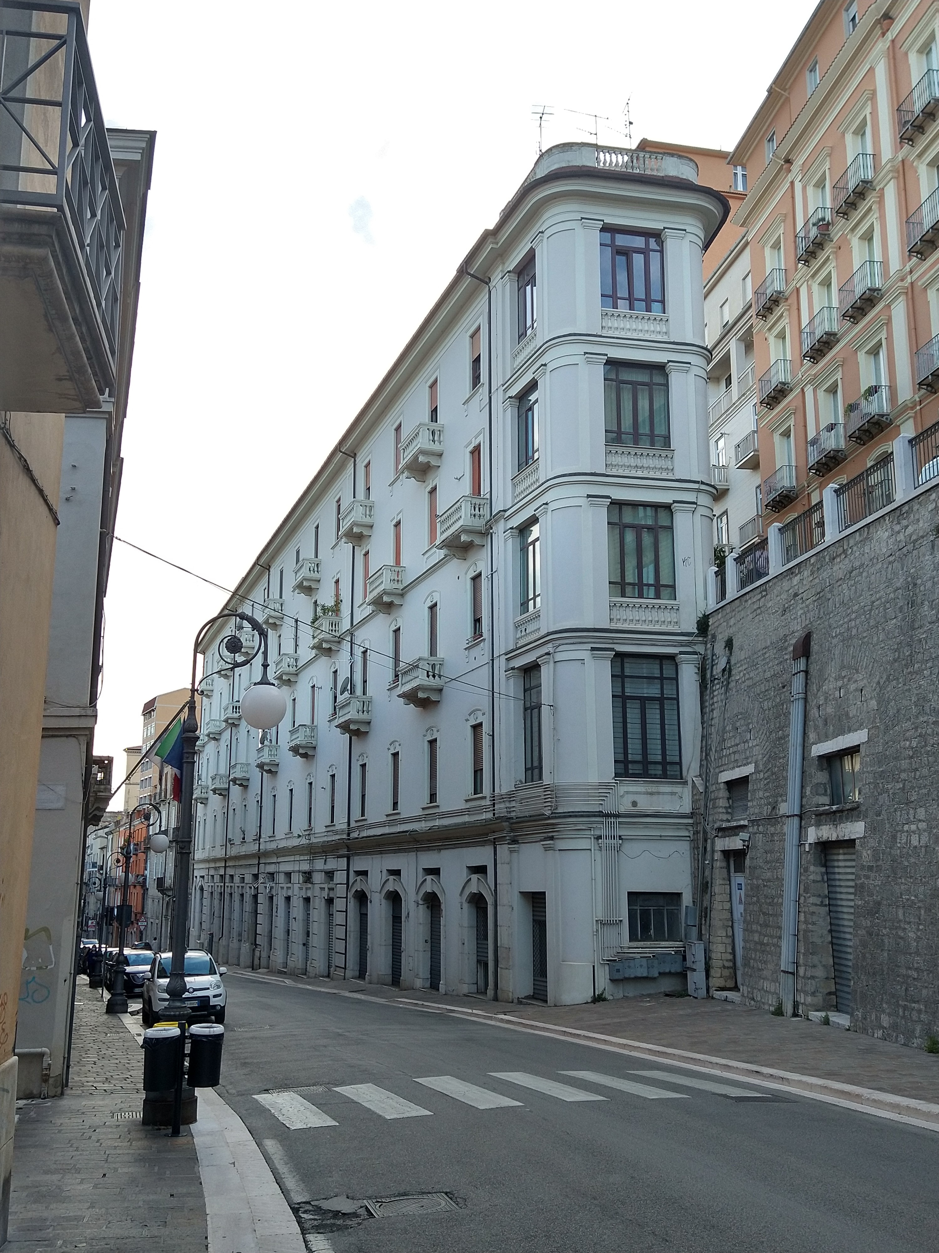 Palazzo Reale, view from corso XVIII Agosto 1860 in Potenza, Italy.